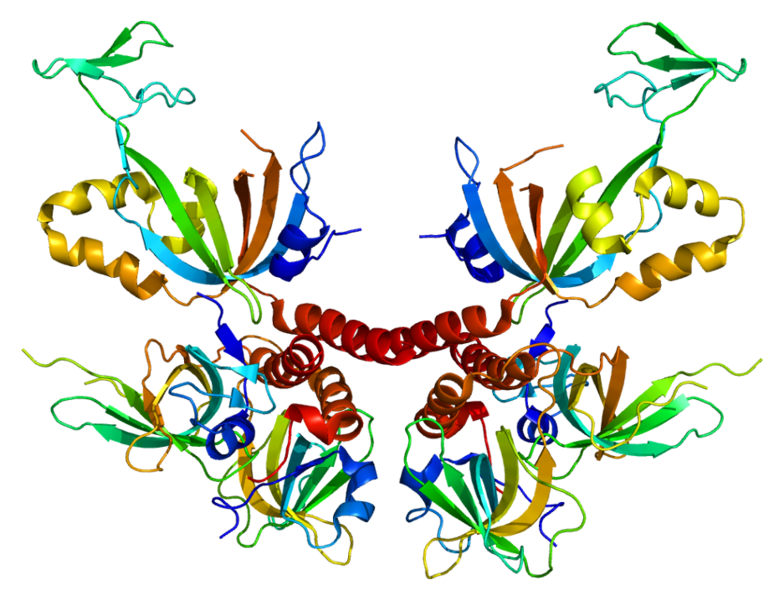 Structure of the Replication protein A. Based on PyMOL rendering of PDB 1L1O.